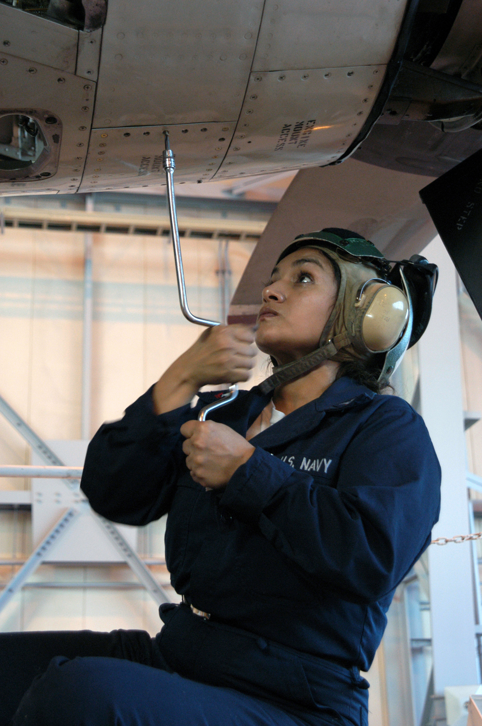 Naval Air Facility, Misawa, Japan (Jan. 26, 2003) -- Aviation Machinist’s Mate 2nd Class Roxana Guevara from Irving, Texas, attaches an access panel to the number one engine of a P-3C “Orion” assigned to the “Golden Eagles” of Patrol Squadron Nine (VP-9). The “Golden Eagles” are currently deployed to Misawa, Japan. U.S. Navy photo by Photographer’s Mate 2nd Class Elizabeth L. Burke. (RELEASED)